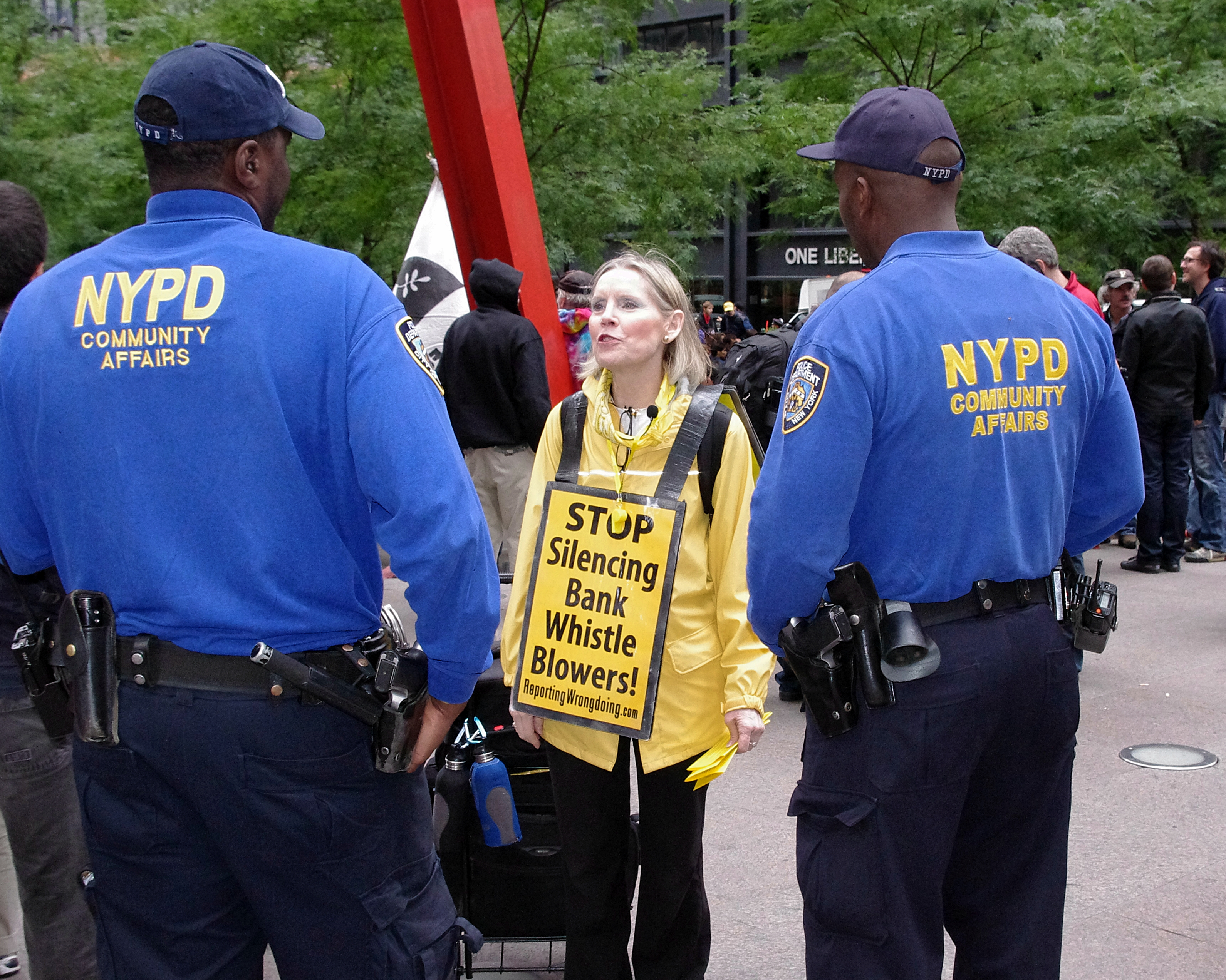 A woman protesting weak protections for whistleblowers at the Occupy Wall Street protest in New York.